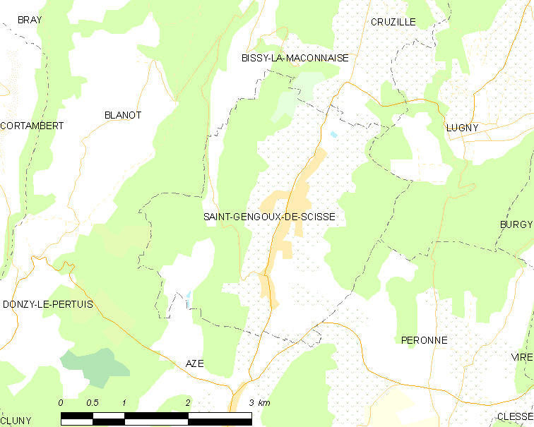 Map of French municipality